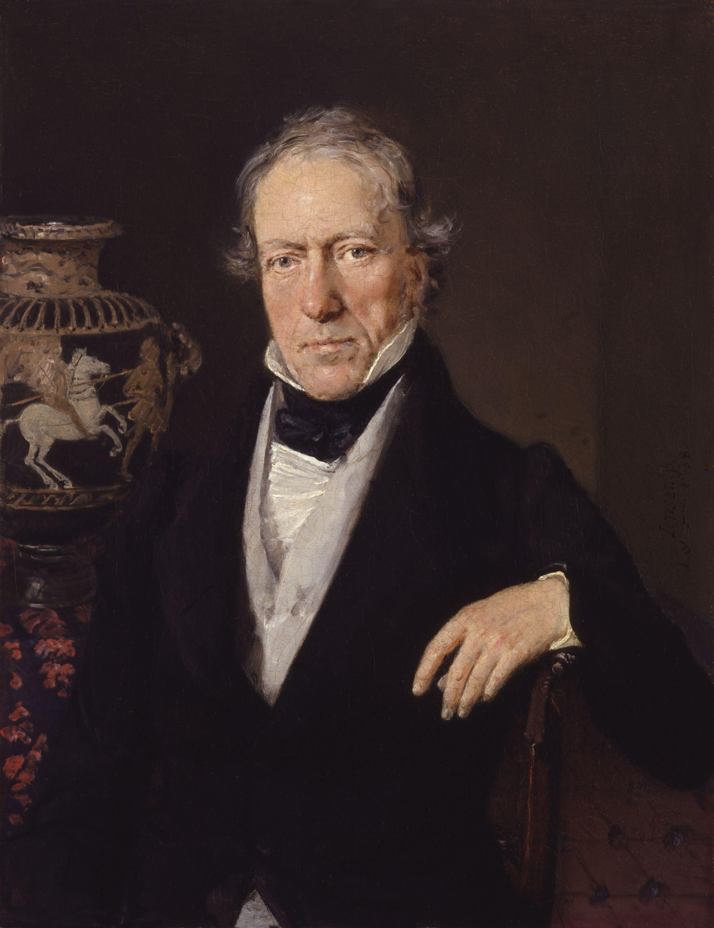 William Martin Leake, by Christian Albrecht Jensen (died 1870). All images in this batch have been confirmed as author died before 1939 according to the official death date listed by the NPG.